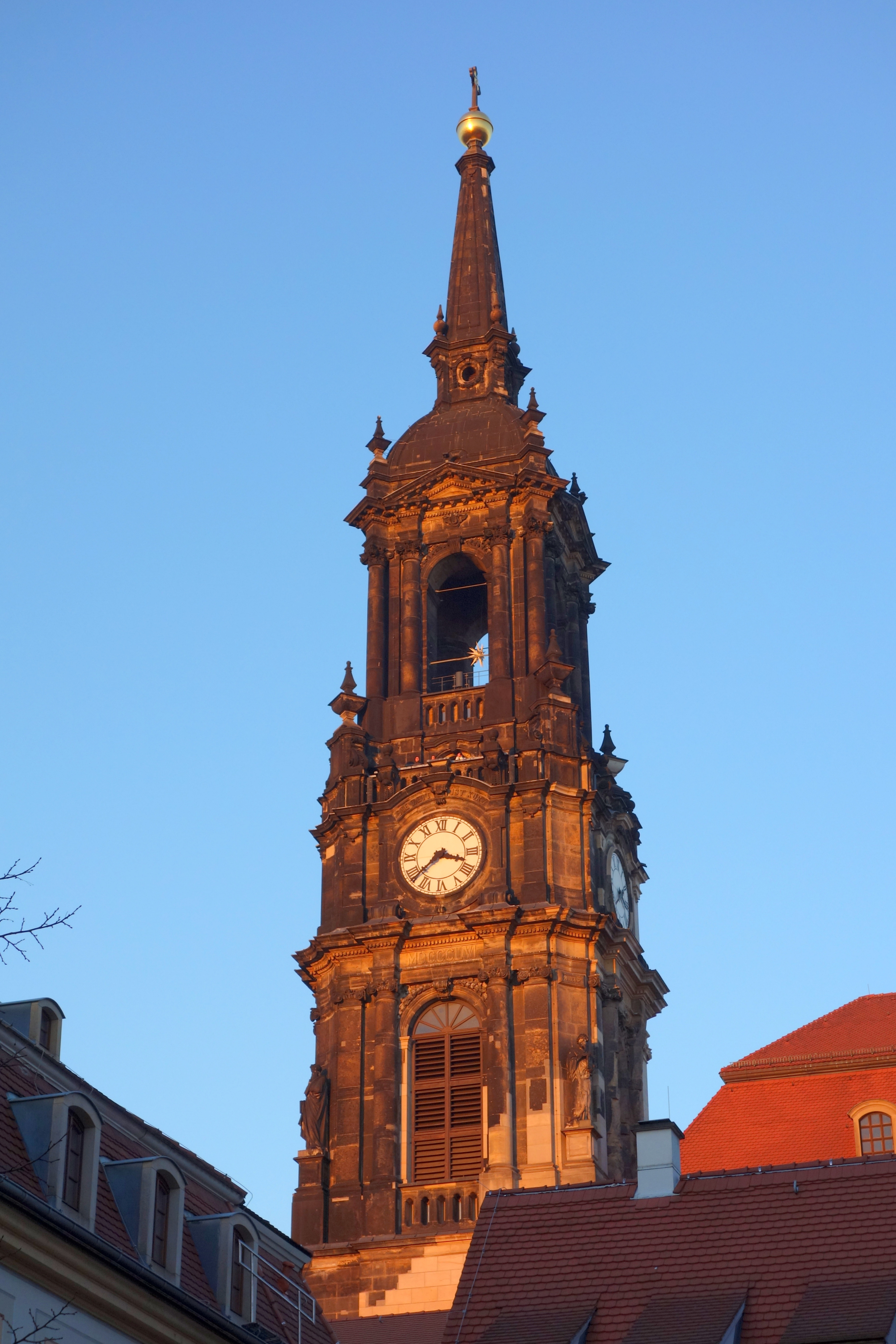 Dreikönigskirche - Dresden, Germany.